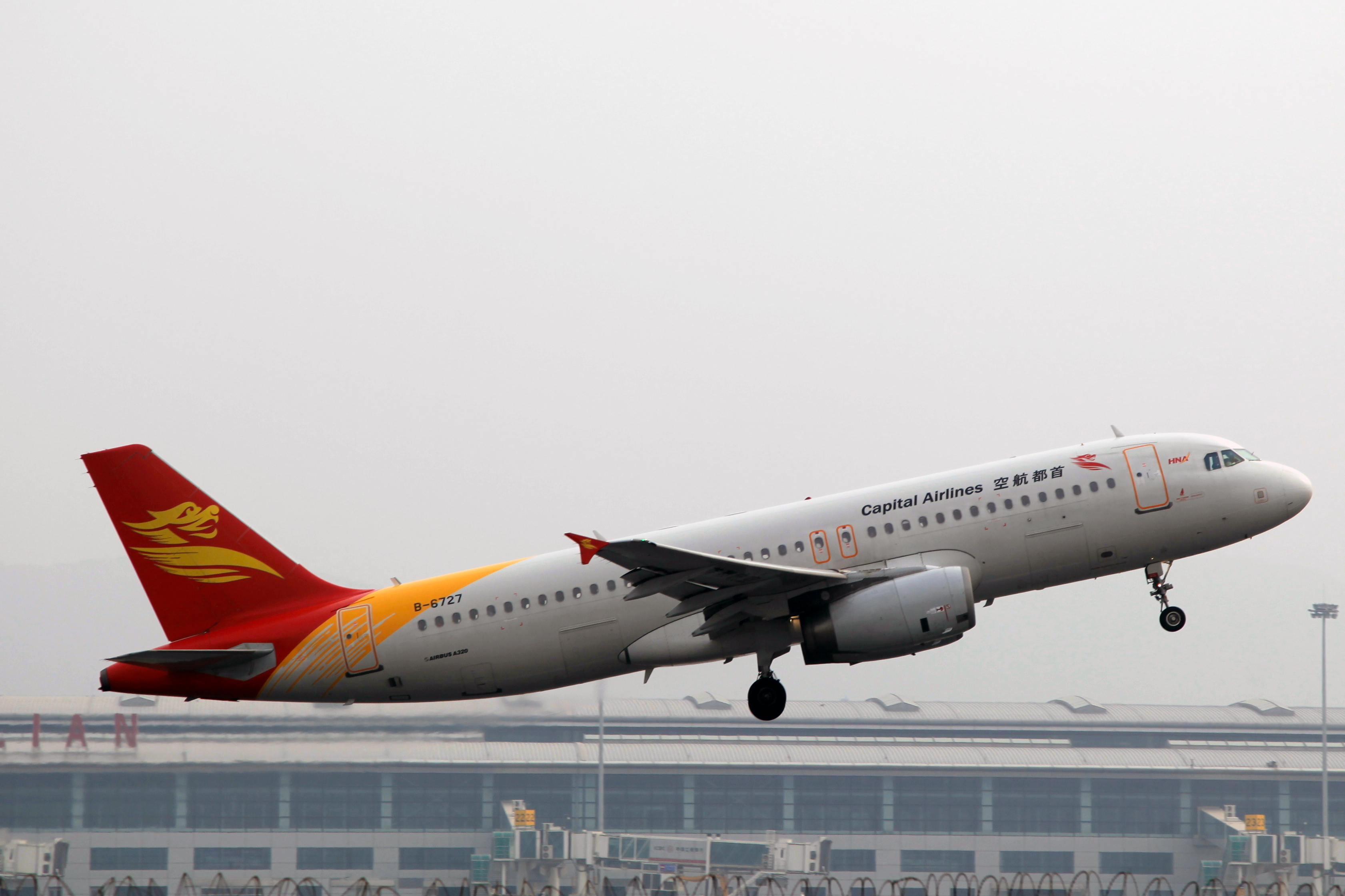 B-6727 | Capital Airlines | Airbus A320-232 | Dalian Zhoushuizi International Airport [DLC]